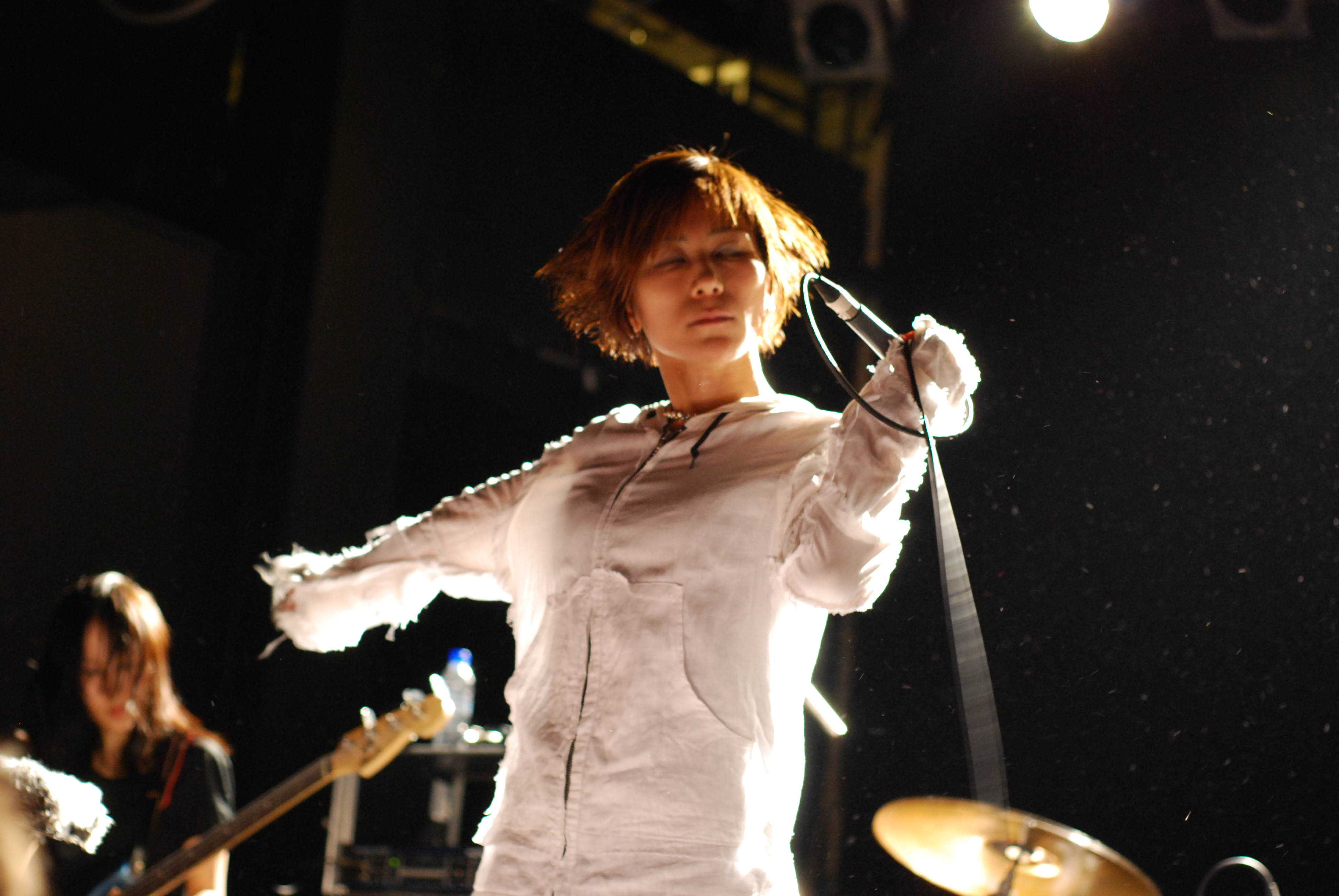 Yasuko Onuki, Melt Banana's singer, live in London